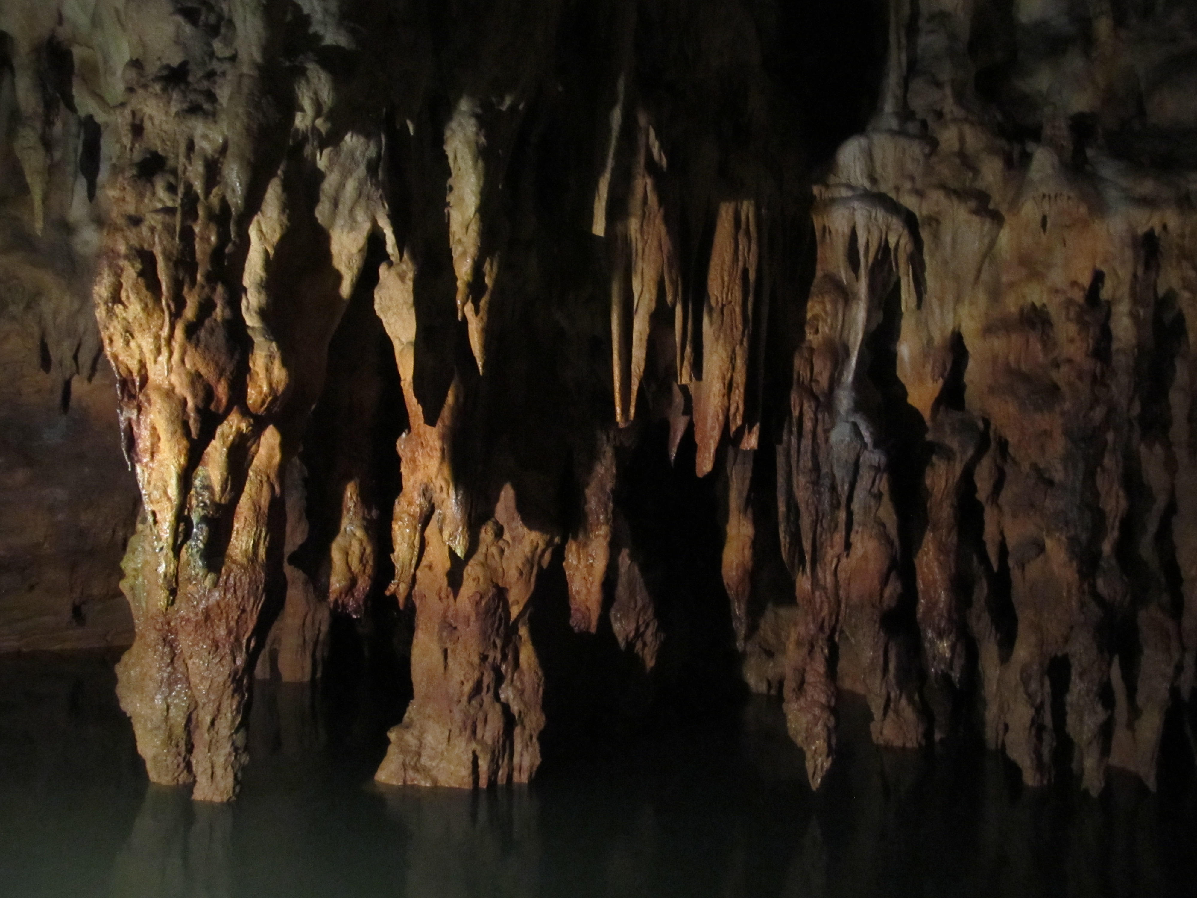 Stalactites in the Maara Cave, Greece